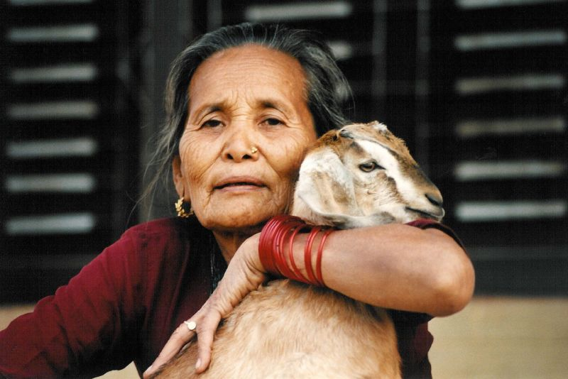 A Gurung hugging a goat